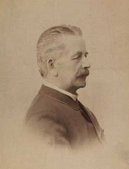 Erik Christian Hartvig Rosenørn-Lehn (1825-1905), Danish Baron, army officer, and estate owner